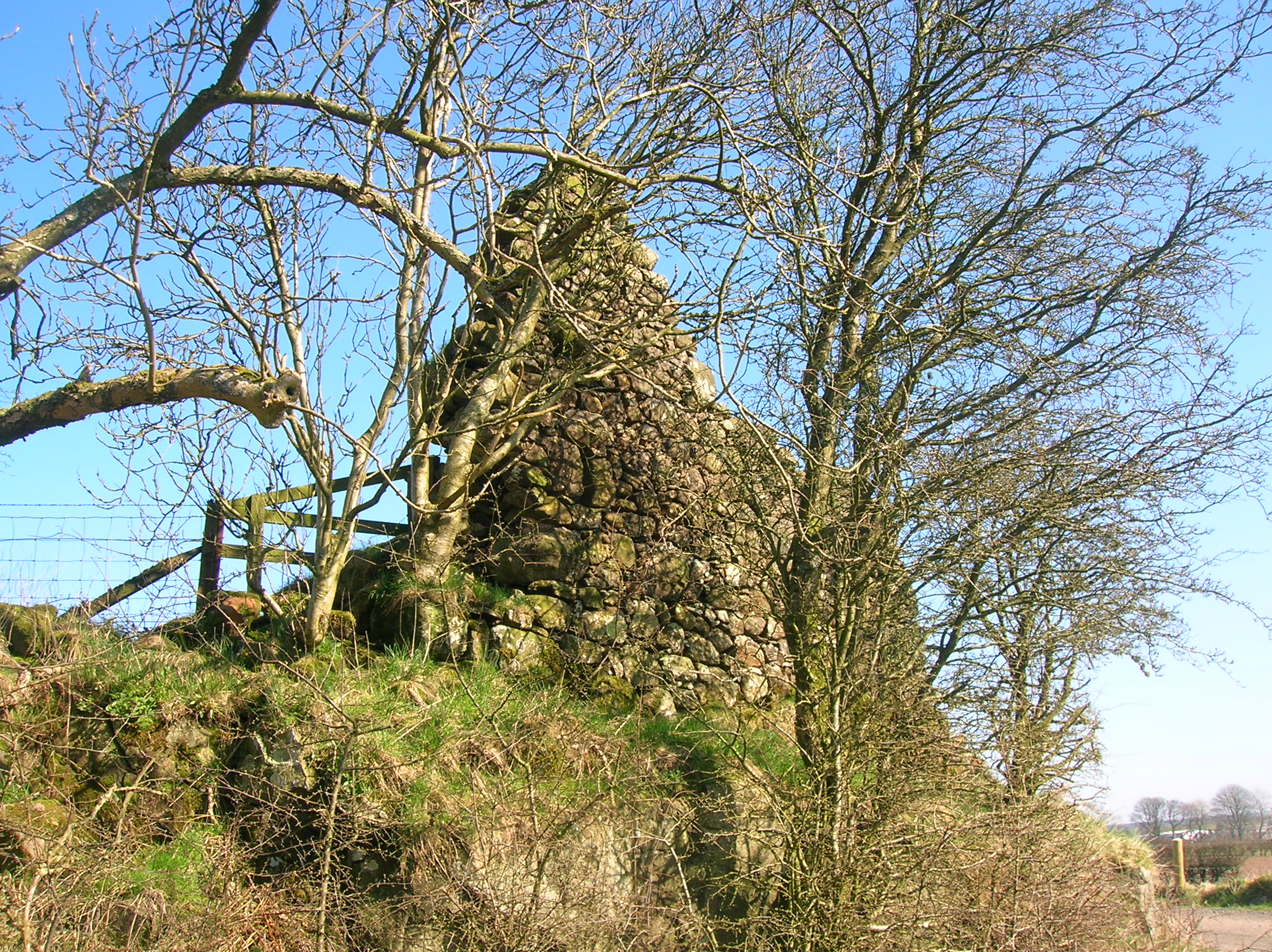 Ancient ruins at Mid Town Farm site, Threepwood, North Ayrshire, Scotland.